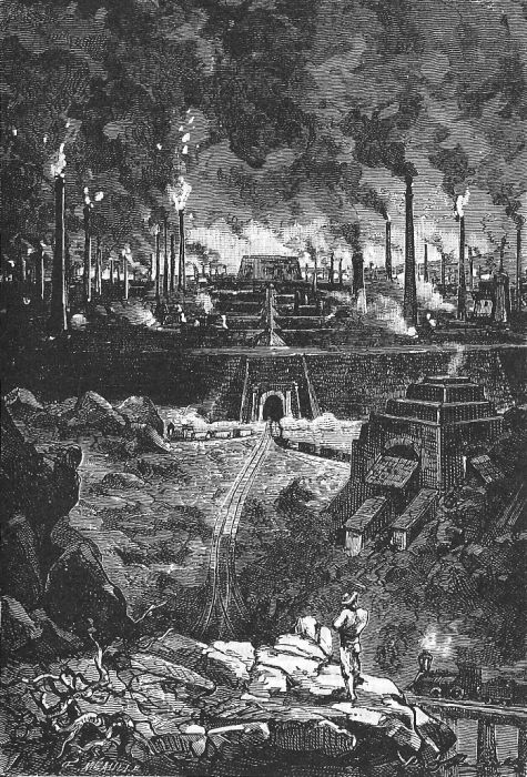 An illustration from Jules Verne's novel "The Begum's Fortune" (also published as "The Begum's Millions").